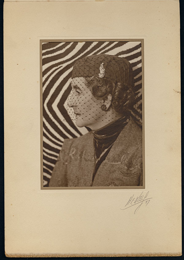 Title / Titre : Portrait of Madge Macbeth against a zebra textile, wearing a tweed jacket and a hat with veil / Madge Macbeth photographiée devant un fond textile zébré. Elle porte un blouson en tweed et un chapeau à voilette. Creator(s) / Créateur(s) : Harold F. Kells Date(s) : 1937 Reference No. / Numéro de référence : MIKAN 3970882 Location / Lieu : Unknown / Inconnu Credit / Mention de source : Harold F. Kells. Library and Archives Canada, e008406110 / Harold F. Kells. Bibliothèque et Archives Canada, e008406110